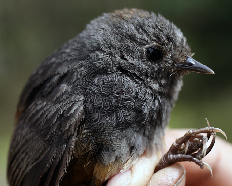 Scytalopus perijanus (Perija Tapaculo) - a new bird species from Venezuela and Colombia (Avendaño et al. 2015. The Auk 132: 450–466).